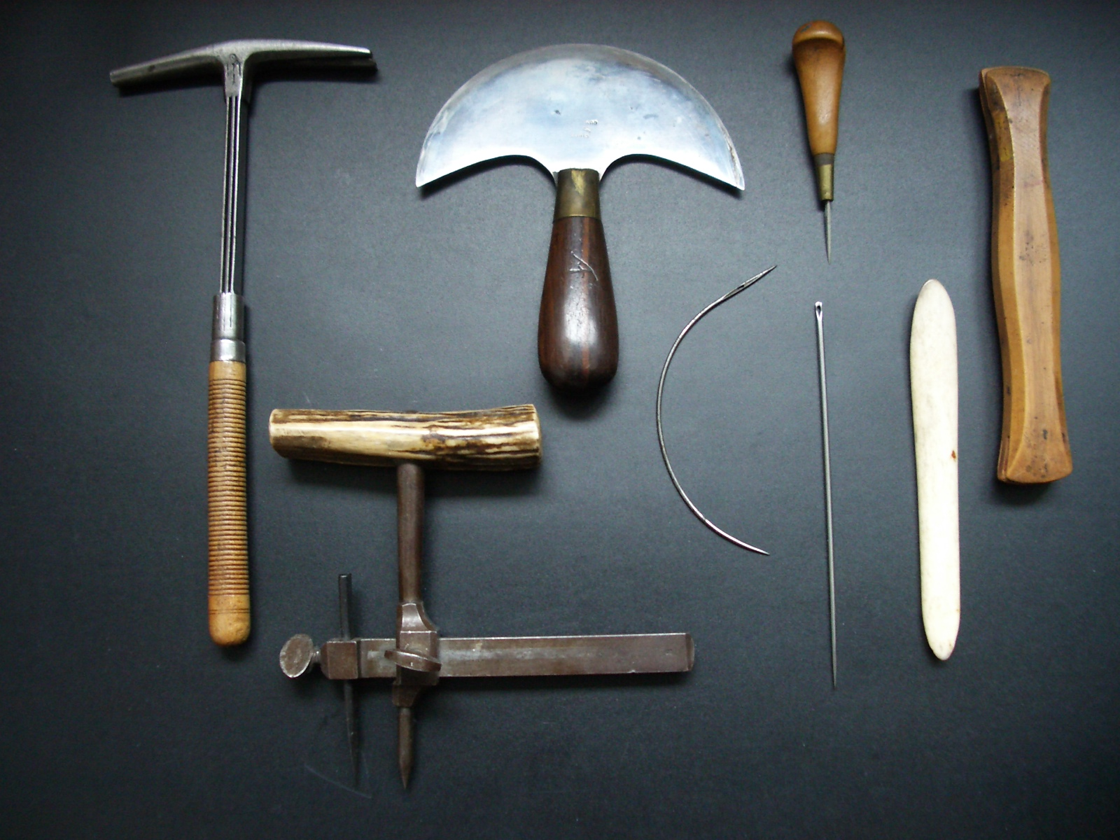 Saddler tools